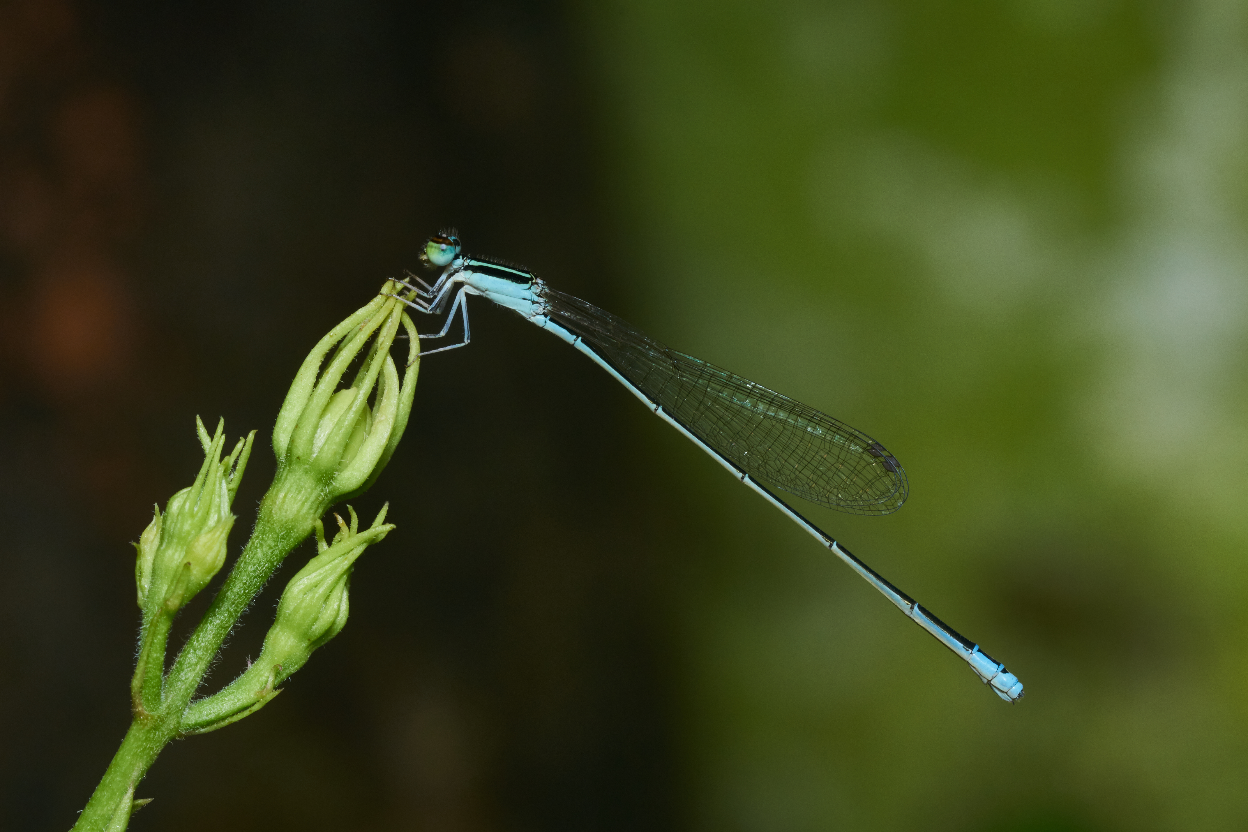 Aciagrion occidentale, Green striped slender dartlet, is a species of damselfly in the family Coenagrionidae found in India, Sri Lanka.